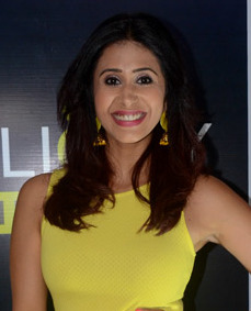 Kishwer Mechant at the premiere of the play Wrong Number in Mumbai